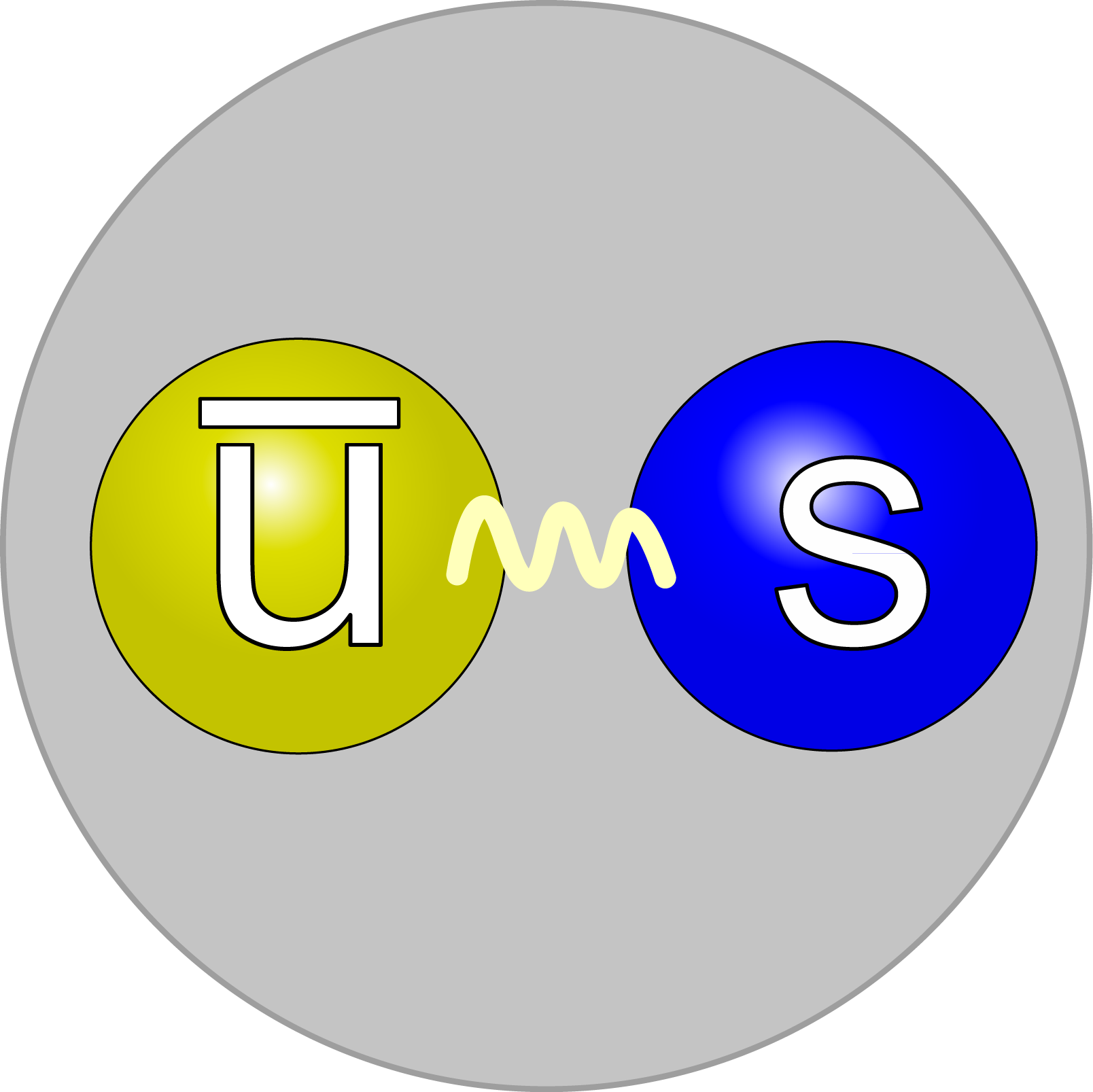 The quark structure of the negative kaon (K⁻). The negative kaon is comprised of an anti-up quark and strange quark. The strong force is mediated by gluons (wavey). The strong force has three types of charges - red, green and the blue. Here the anti-up has blue and the has anti-blue (yellow).